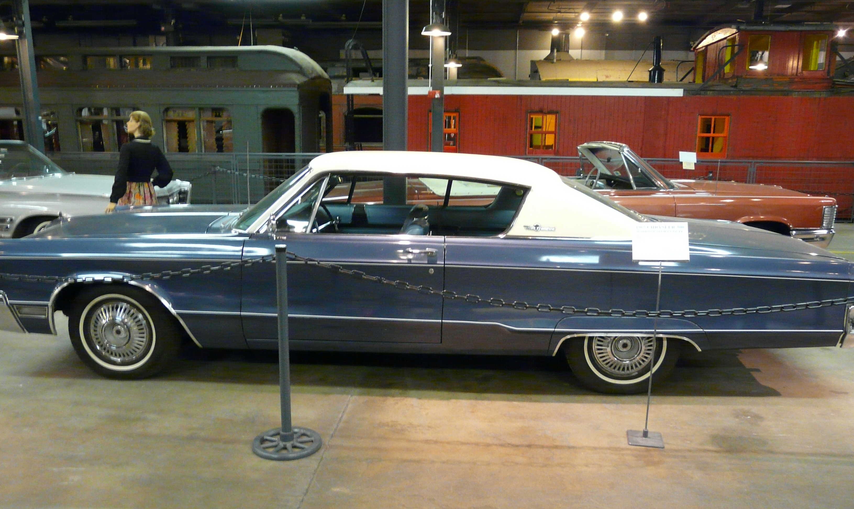 1967 Chrysler 300 in Denver, summer 2012